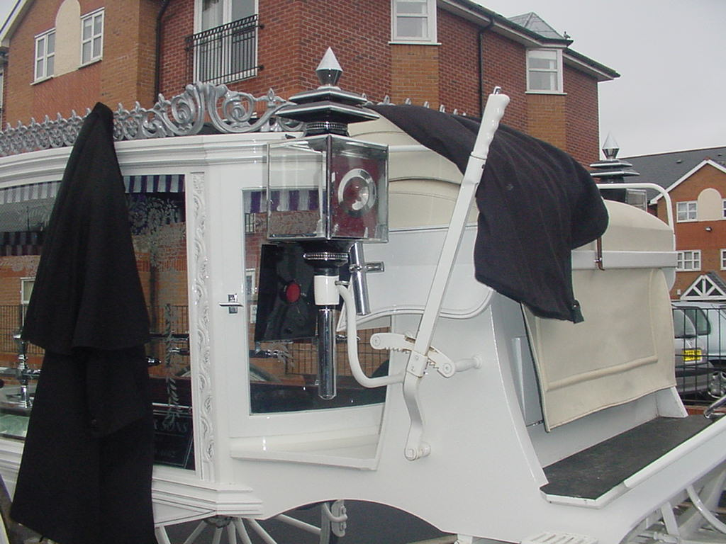 brake lever on a horse-drawn hearse south Manchester (UK)